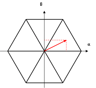 Pulse Width Modulation "Space Vector"